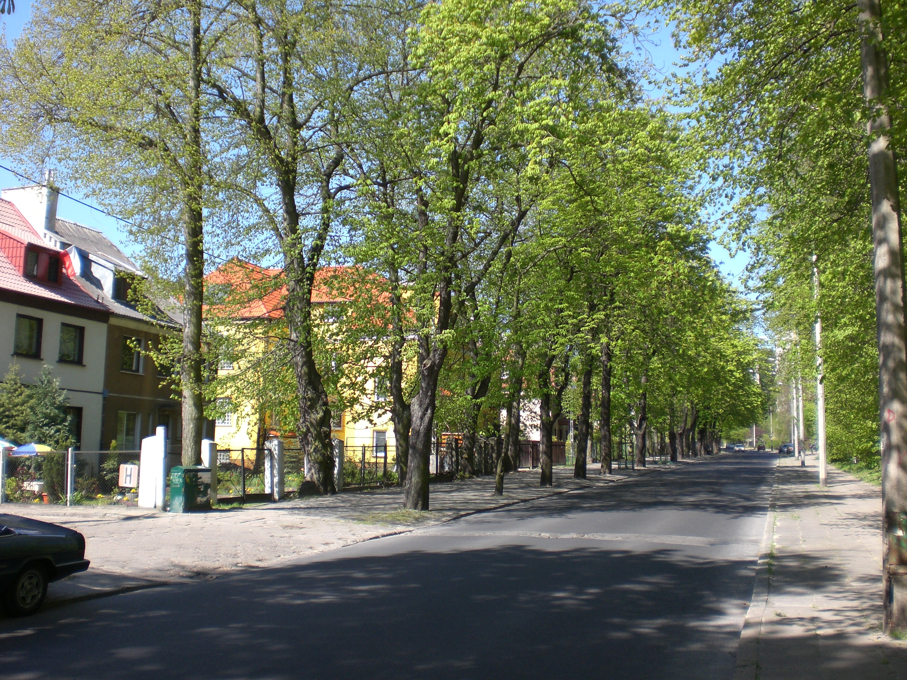 Sopot, Poland